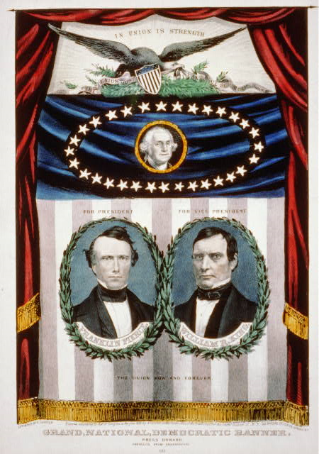 1852 Democratic Poster of Pierce and King